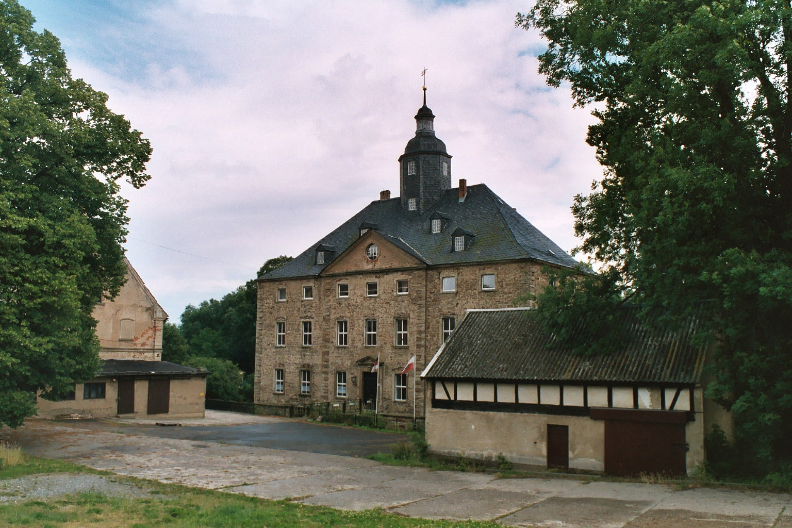 Dobitschen, the moated castle